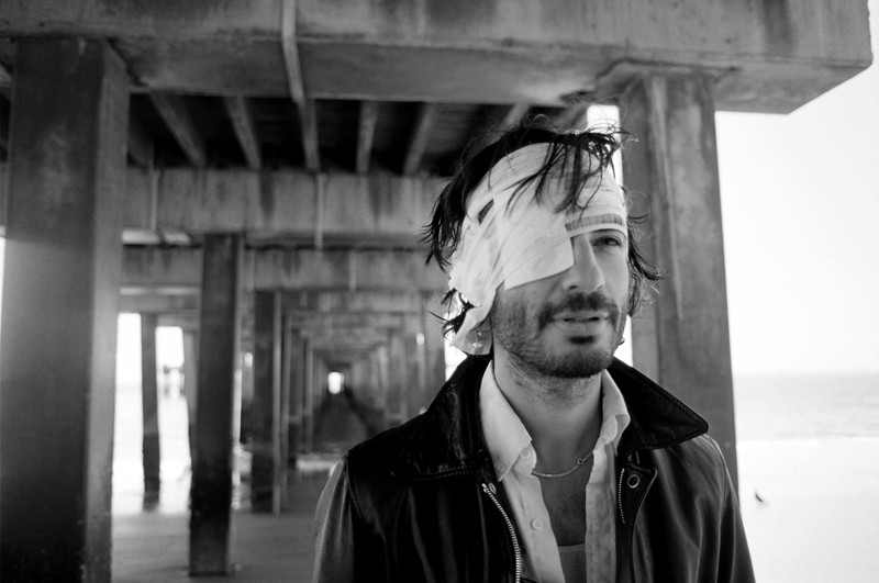 Jason Sebastian Russo during the filming of a music video for Hopewell (band) at Coney Island, April 2009. Photo by Alexandra Marvar